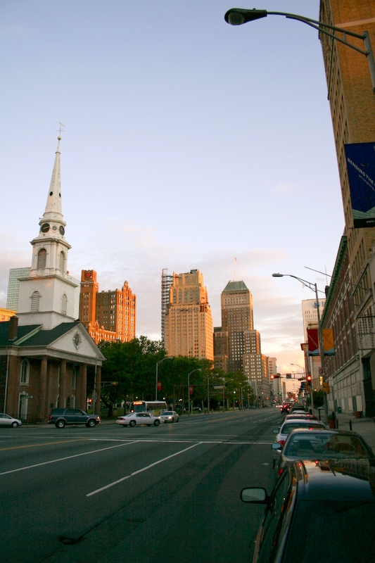 Newark, New Jersey's Broad Street (539), looking South.